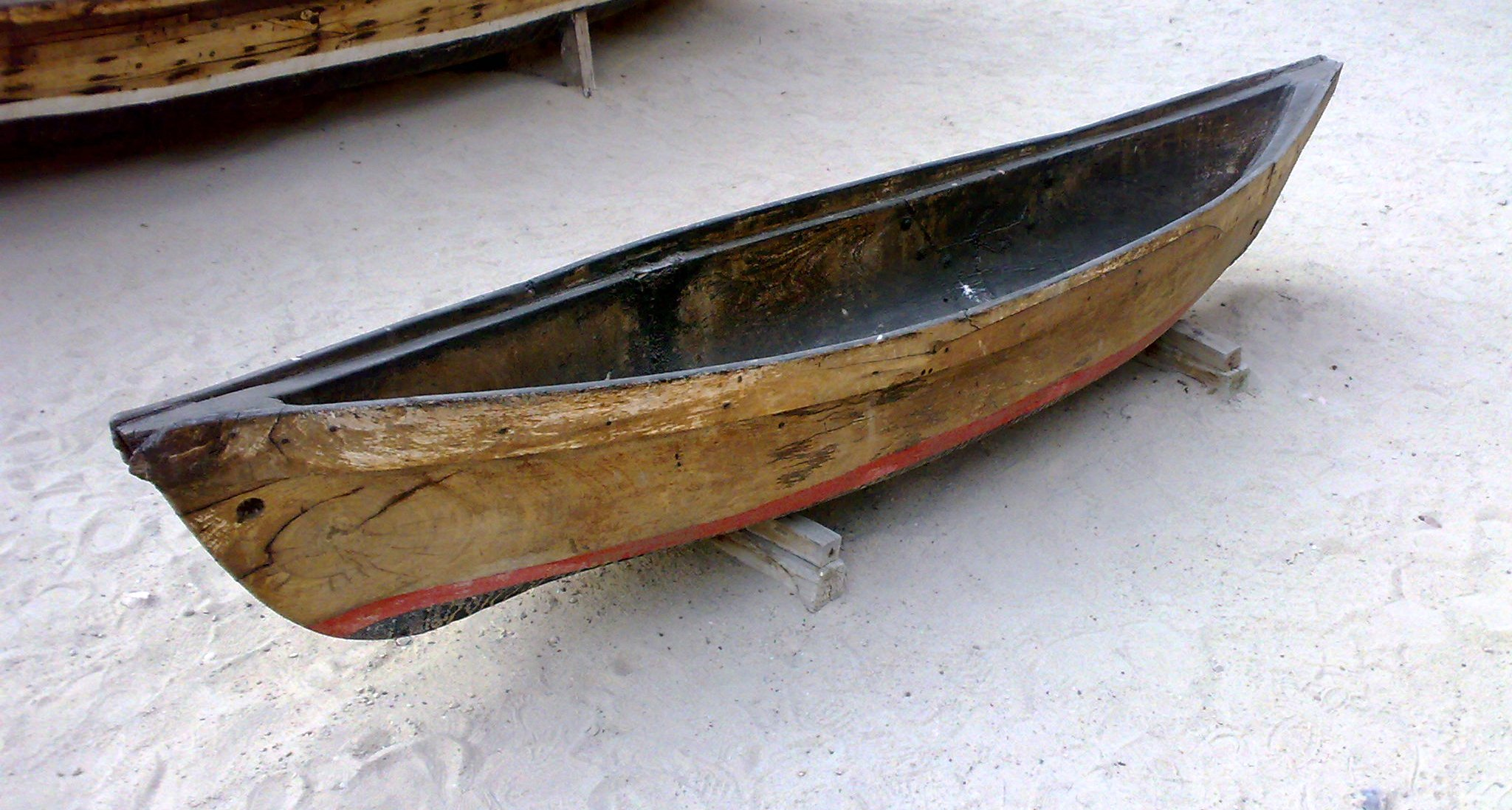 Boat from Dubai, probably 19th century, at display in the Dubai Museum (Al Fahidi Fort), UAE